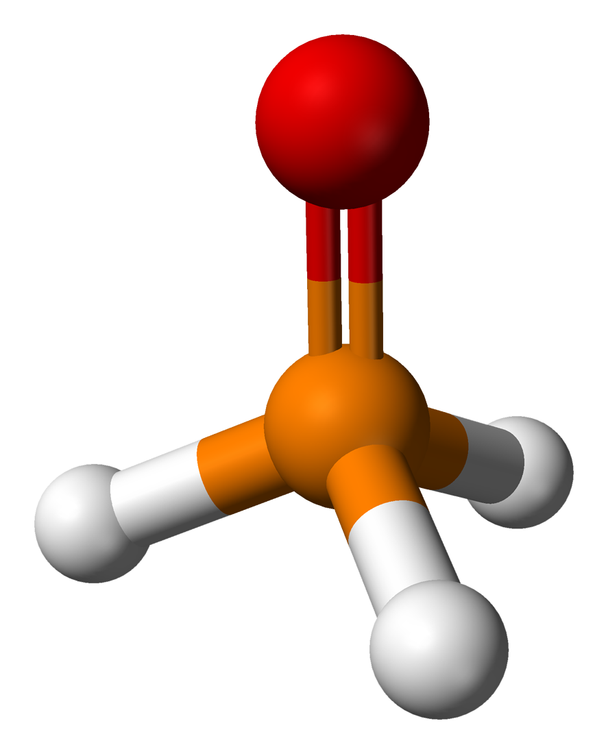 Ball-and-stick model the phosphine oxide molecule, H3P=O. Microwave data from THEOCHEM (2005) 723, 1-8